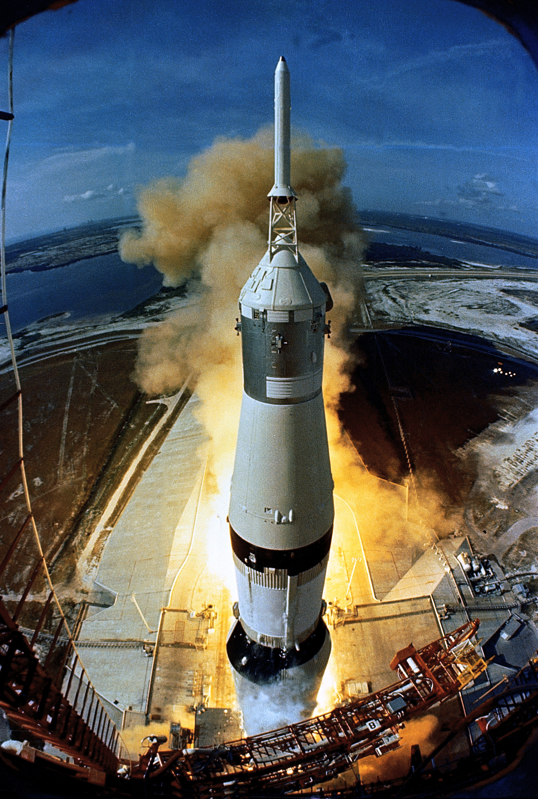 The huge, 363-feet tall Apollo 11 (Spacecraft 107/Lunar Module S/Saturn 506) space vehicle is launched from Pad A, Launch Complex 39, Kennedy Space Center (KSC), at 9:32 a.m. (EDT), July 16, 1969. Onboard the Apollo 11 spacecraft are astronauts Neil A. Armstrong, commander; Michael Collins, command module pilot; and Edwin E. Aldrin Jr., lunar module pilot. Apollo 11 is the United States' first lunar landing mission. While astronauts Armstrong and Aldrin descend in the Lunar Module (LM) "Eagle" to explore the Sea of Tranquility region of the moon, astronaut Collins will remain with the Command and Service Modules (CSM) "Columbia" in lunar orbit. This photograph was taken from a camera on the launch tower.